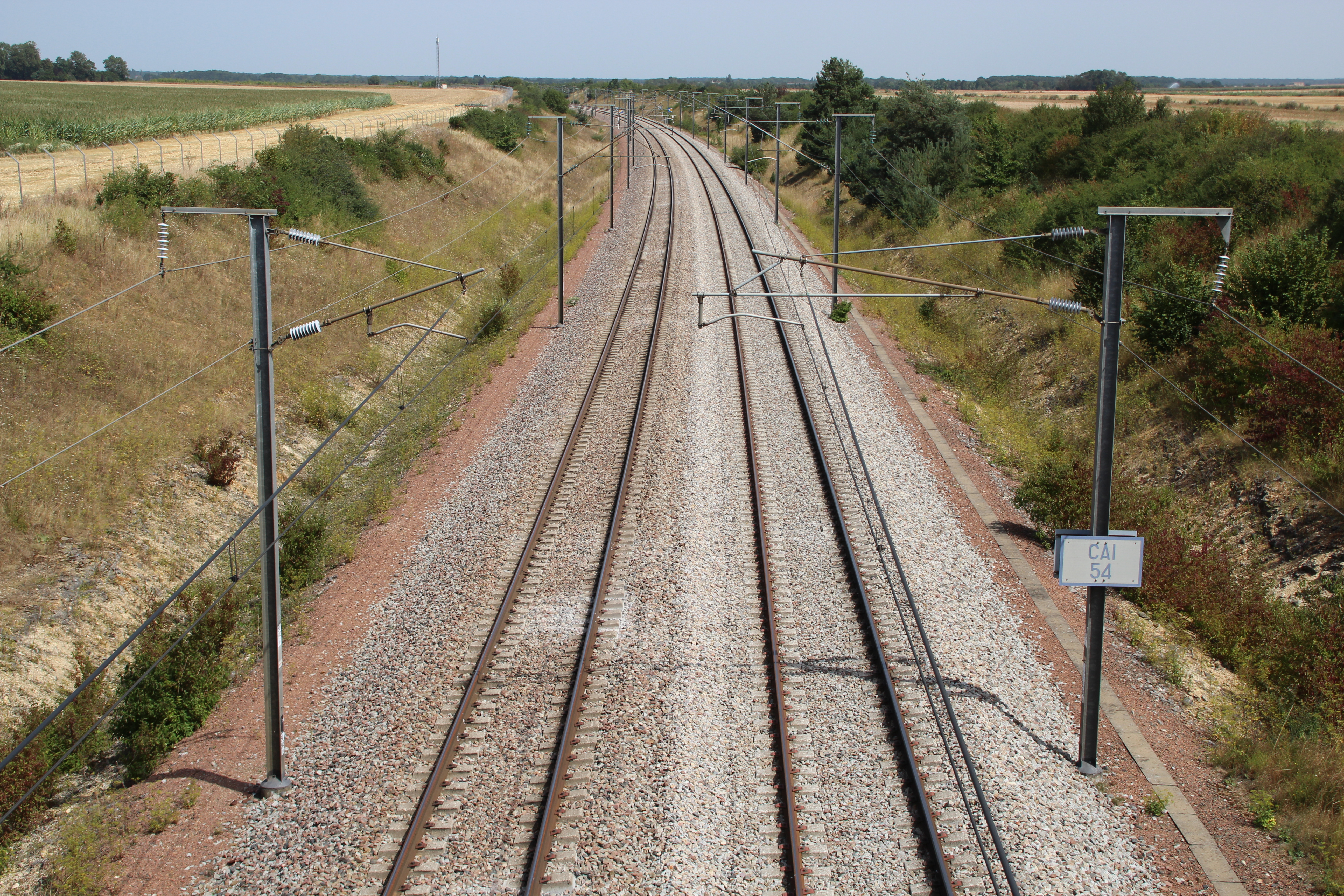 Obville road, crossing over the railway of the TGV Atlantique in Boinville-le-Gaillard, France